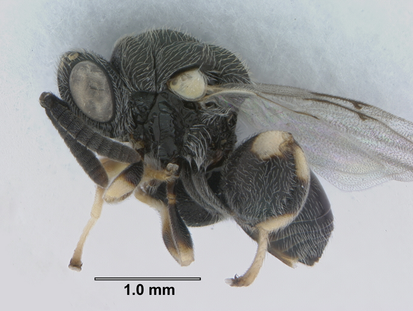 These wasps most likely lay their eggs in caterpillars but may also be hyperperasites of bees, wasps, or flies that parasitise moths and butterflies. possibly ovata